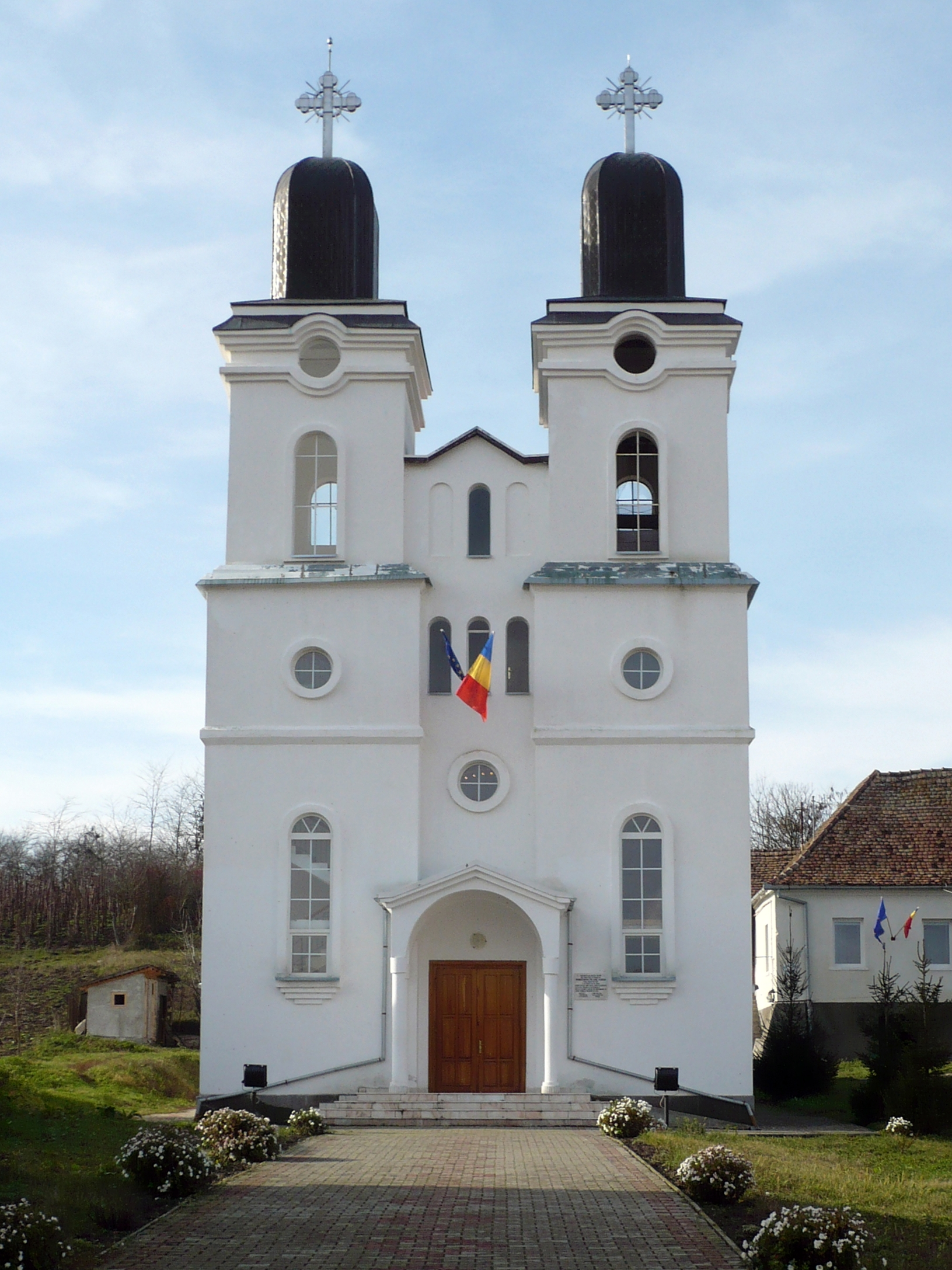 The Catholic Church from Boian, Sibiu, Romania.